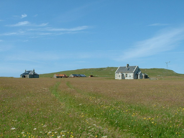 Houses on Boreray (North Uist) Boreray has a population of 1. I visited it on a boat trip organised from Berneray in July 2006. I believe the photo shows the residents house and another house which is let to viitors.